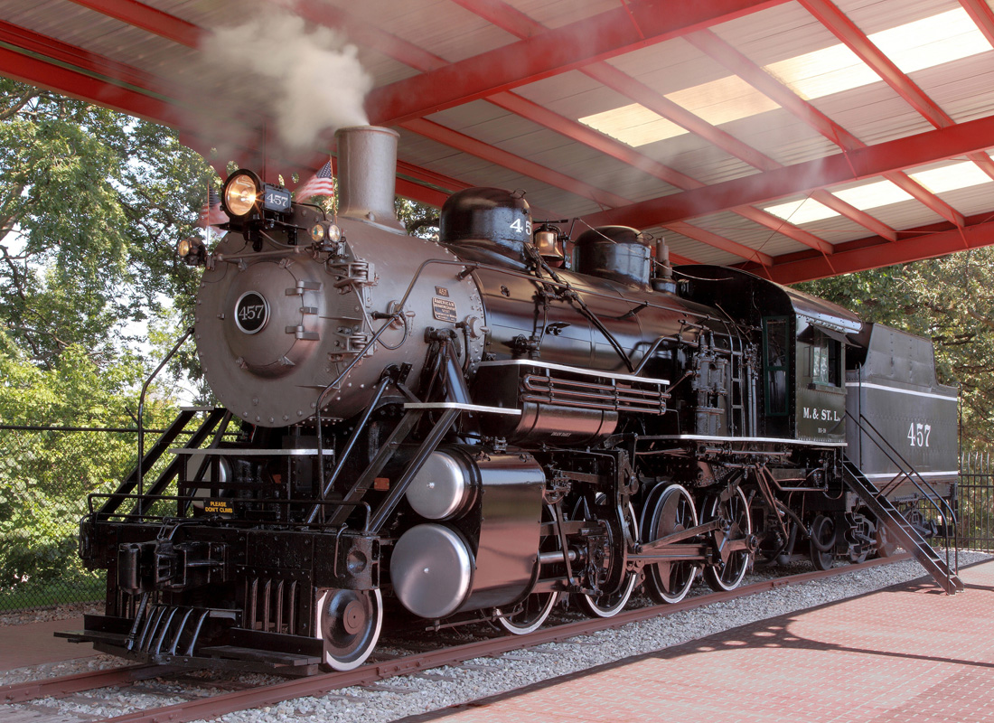 This is one of the American Locomotive Companies 2-8-0 Consolidations built for the Minneapolis and St. Louis Railroad in 1912. It now resting at East Park in Mason City, IOWA